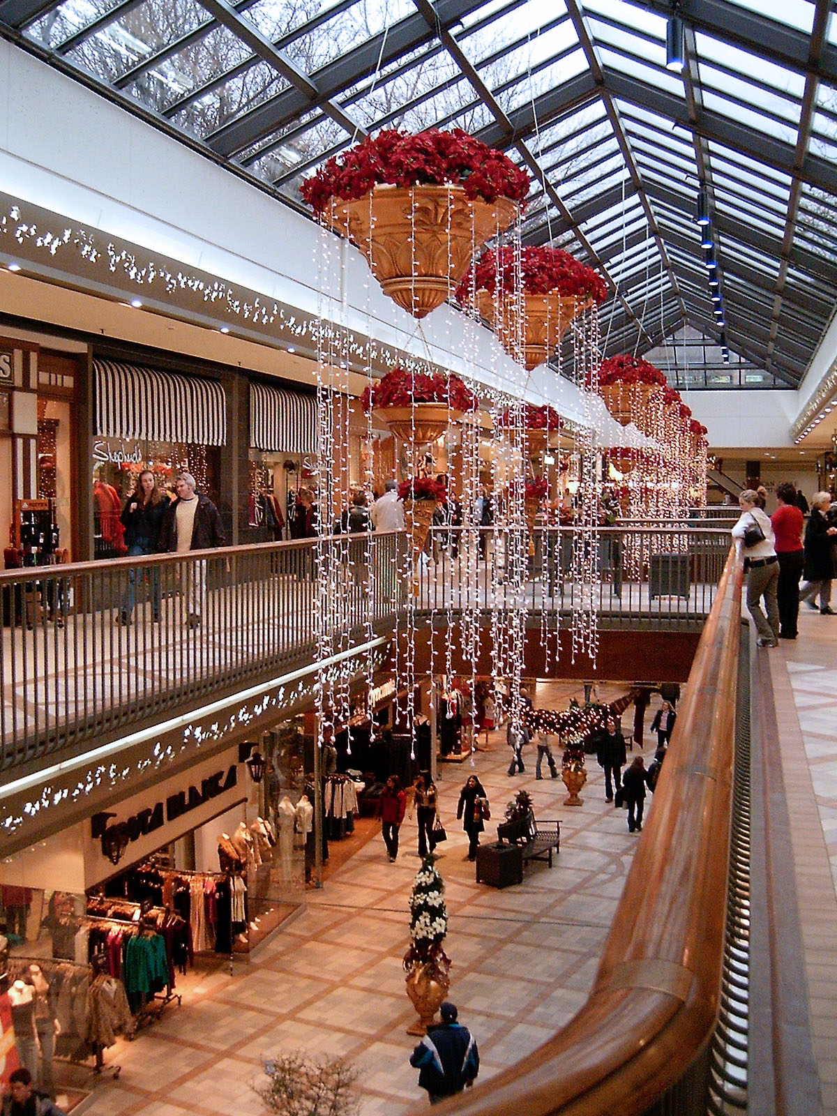 Rideau Centre, Ottawa at Xmas